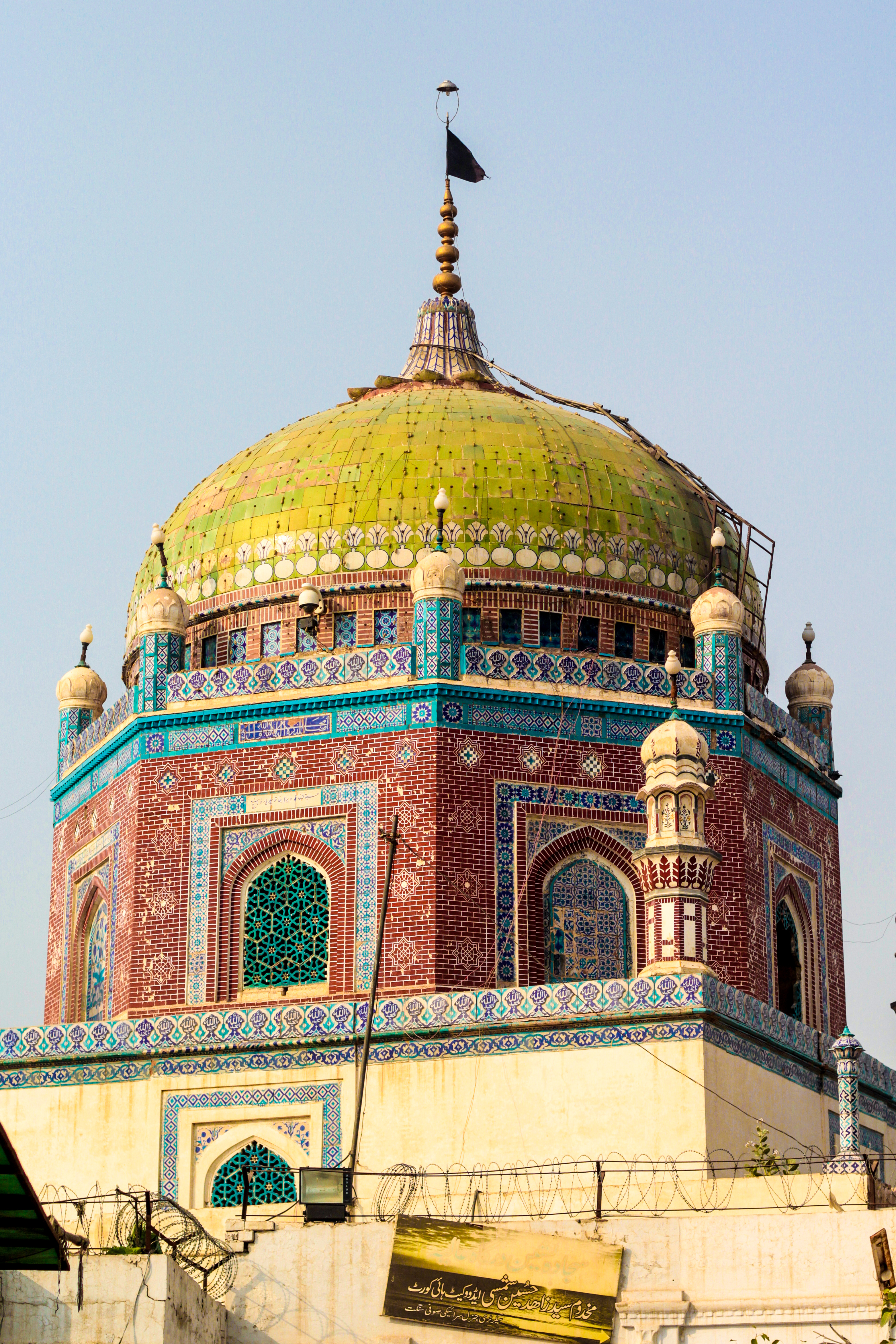 Shrine of Hazrat Shah Shamsuddin Sabzwari This is a photo of a monument in Pakistan identified as the PB-P-152